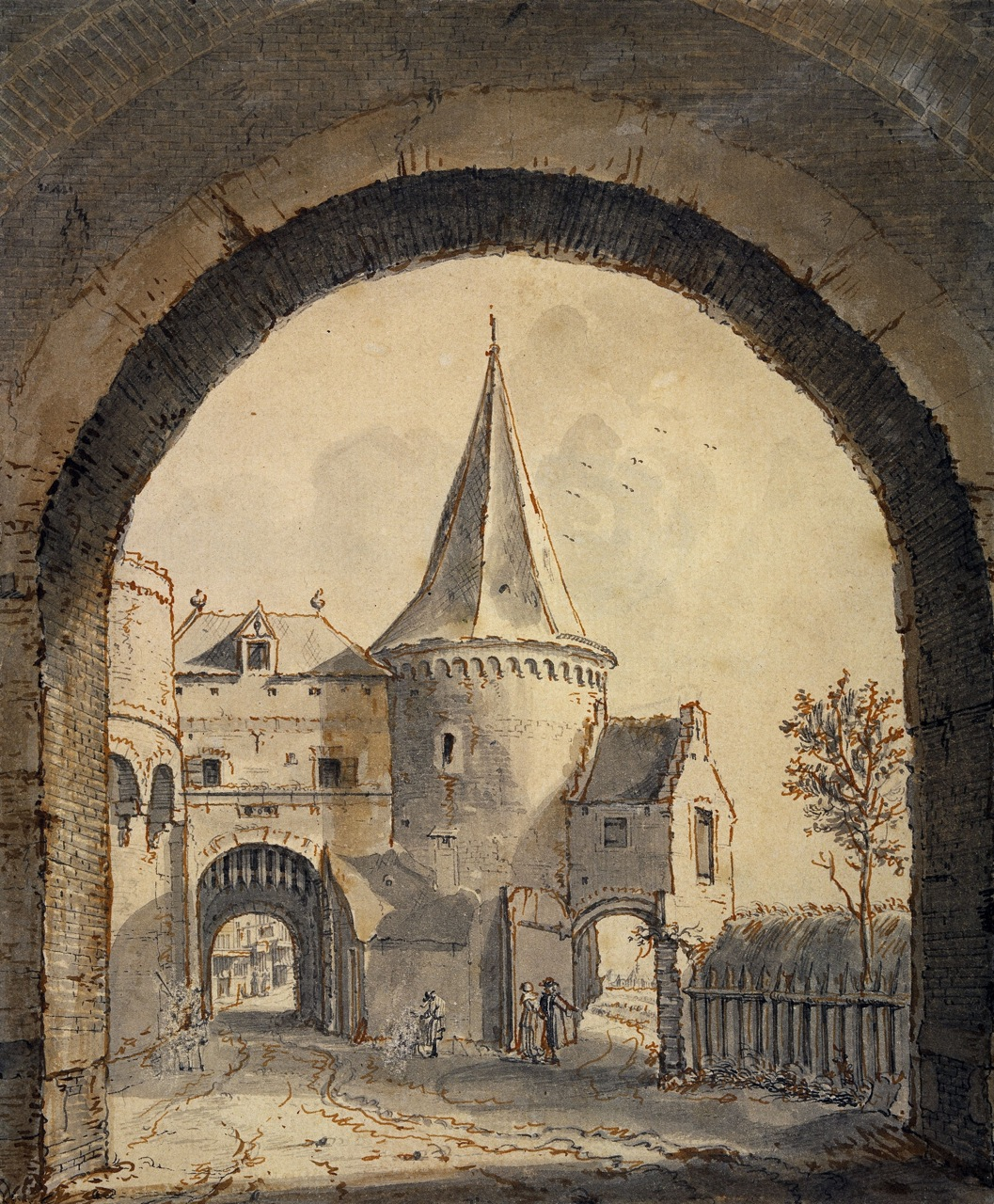 Maaspoort Venlo 1741